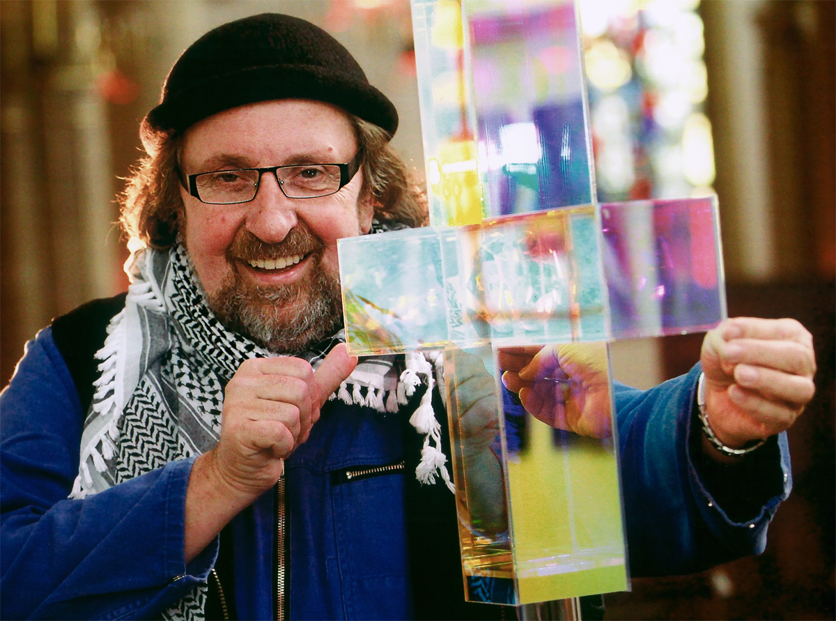 Ludger Hinse is a german artist